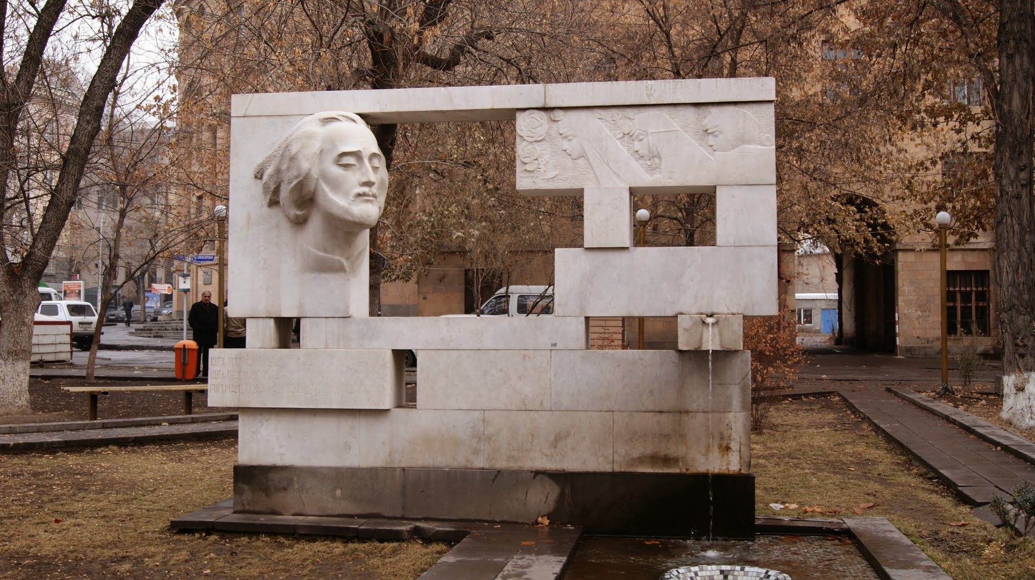 Ara Harutyunyan. Sayat-Nova, marble, 1963, Yerevan 6/110